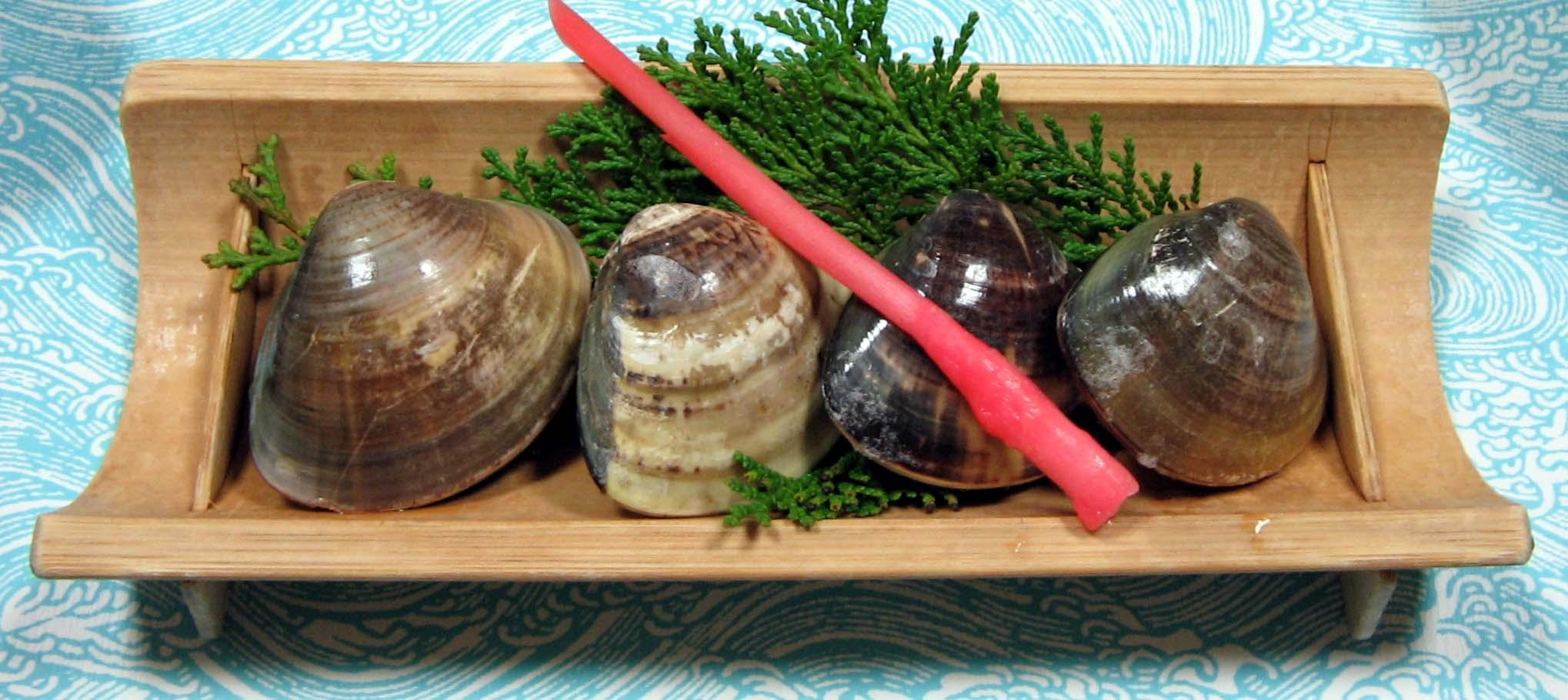 Baked clam (Meretrix lusoria) in Kuwana, Mie, Japan